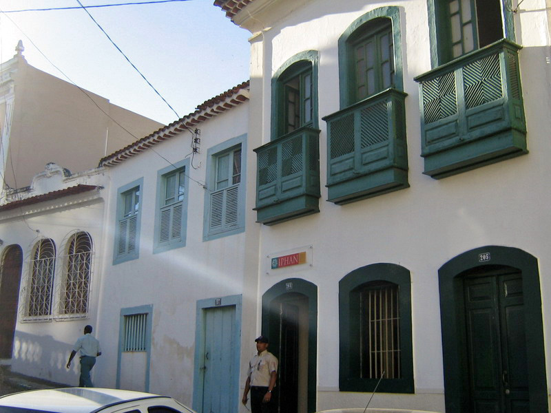 Old town houses, Vitória, state of Espírito Santo, Brazil.